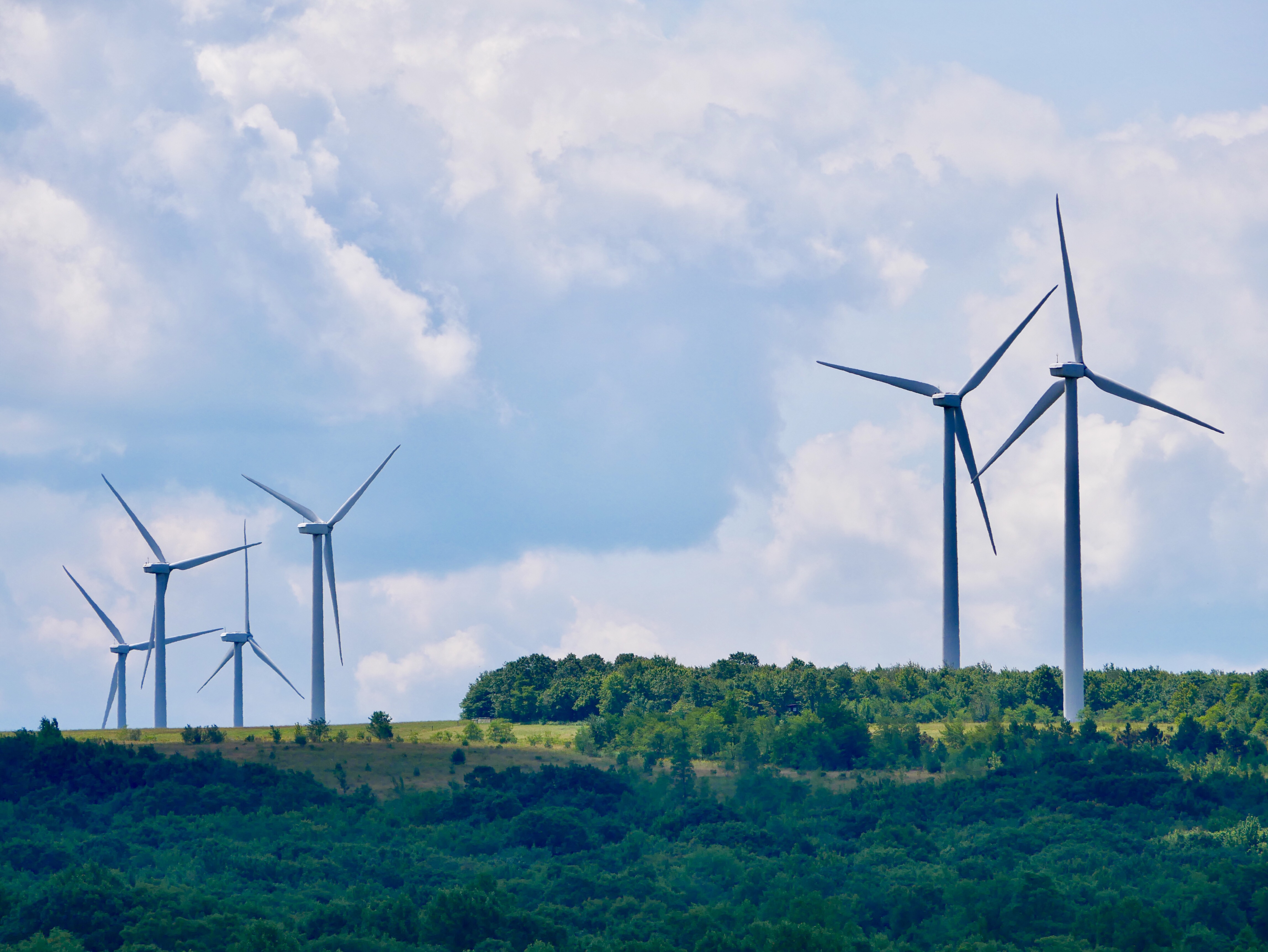 GE1.5-77 turbines at the Casselman Wind Farm in Somerset County, PA, installed in 2007. Taken from a nearby field on Rockdale Road.